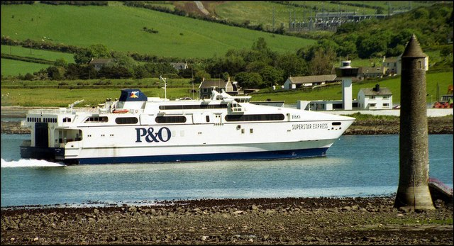 The "Superstar Express" at Larne The high-speed ferry “Superstar Express” arriving at Larne from Cairnryan.